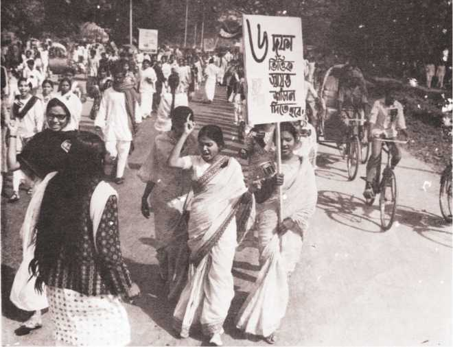 On June 7, 1966, the people of what was then East Pakistan observed a general strike in support of the Awami League's Six-Point program of autonomy